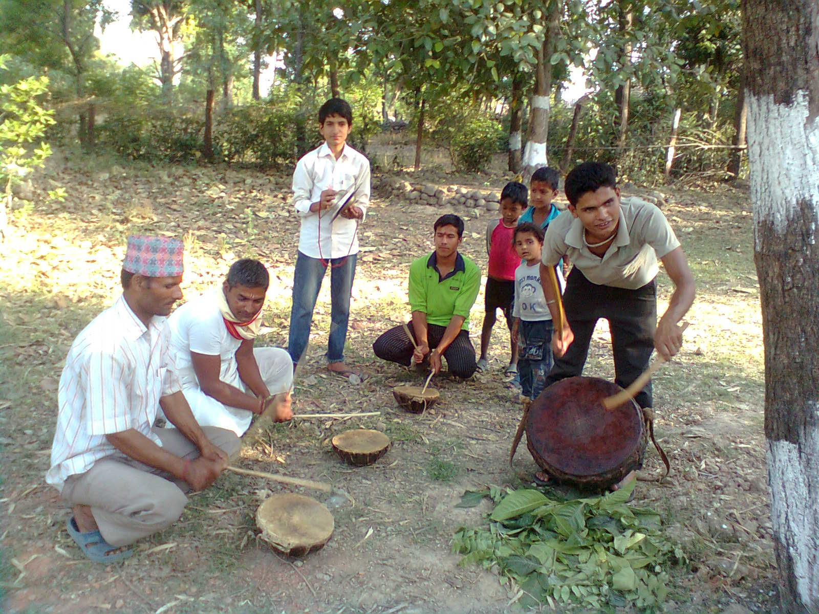 Playing Damaha at Attariya municipality ward no. 1, Kailali.